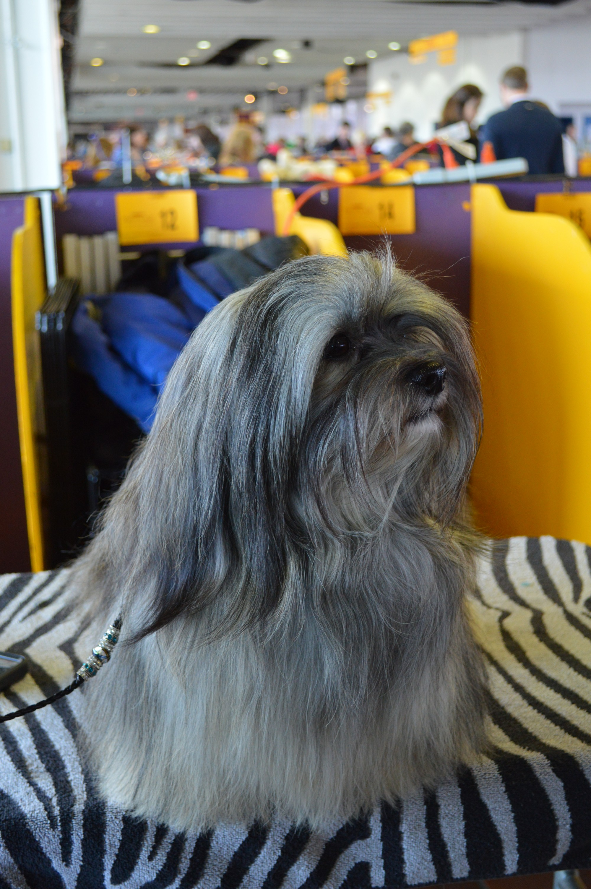 Breed type and specific dog name is in the file name. TERMS OF USE: You must link directly to our website, rather than Flickr if you use this photo. Thanks for your cooperation. 2015 Westminster Kennel Club Dog Show, New York City.